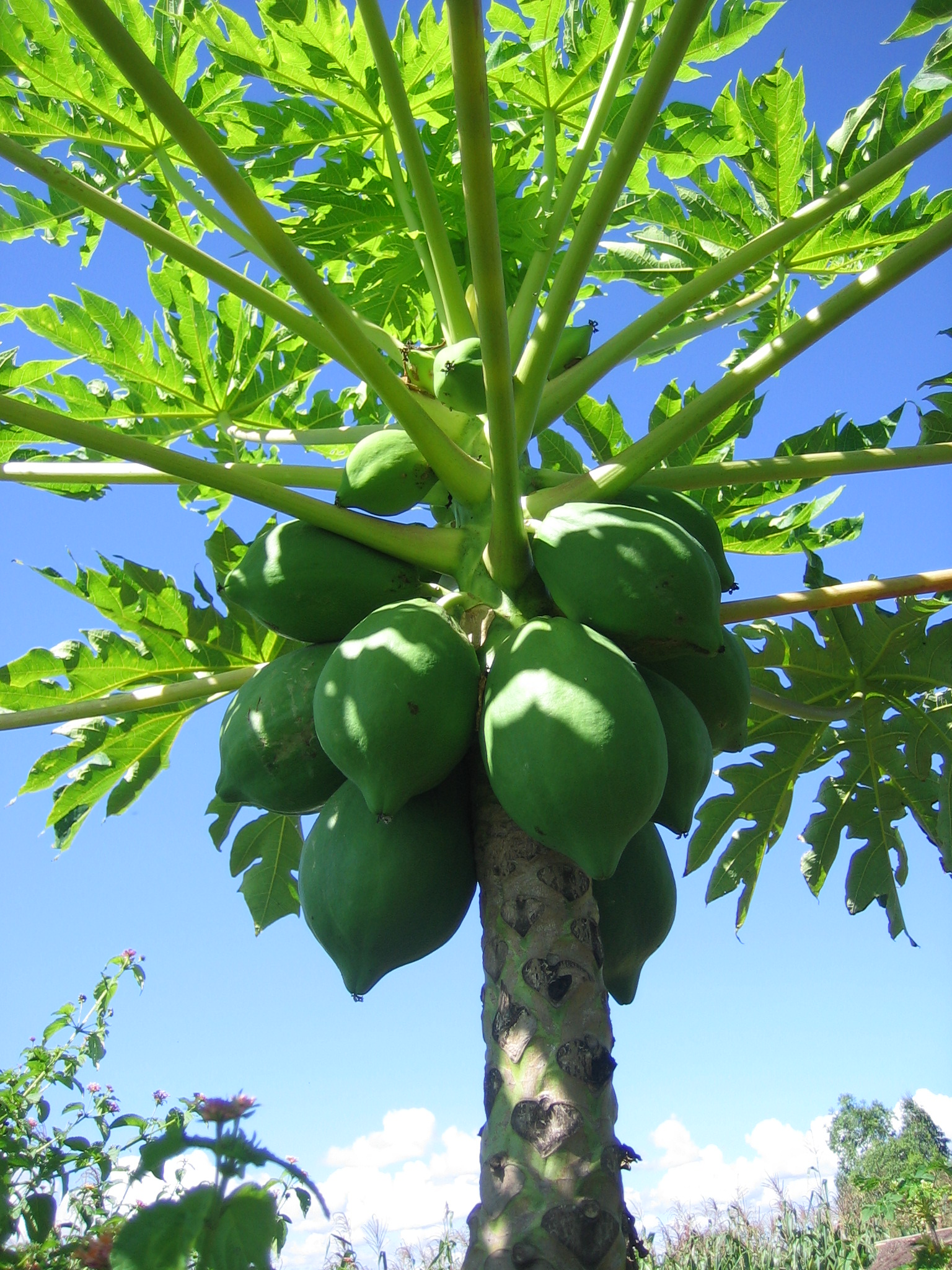 Porter farm. Luxuriant growth of PawPaw on arborloo pit. Photo by: Peter Morgan in 15. March 2006, Zimbabwe.